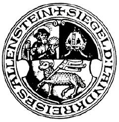 Coat of Arms of former Allenstein County